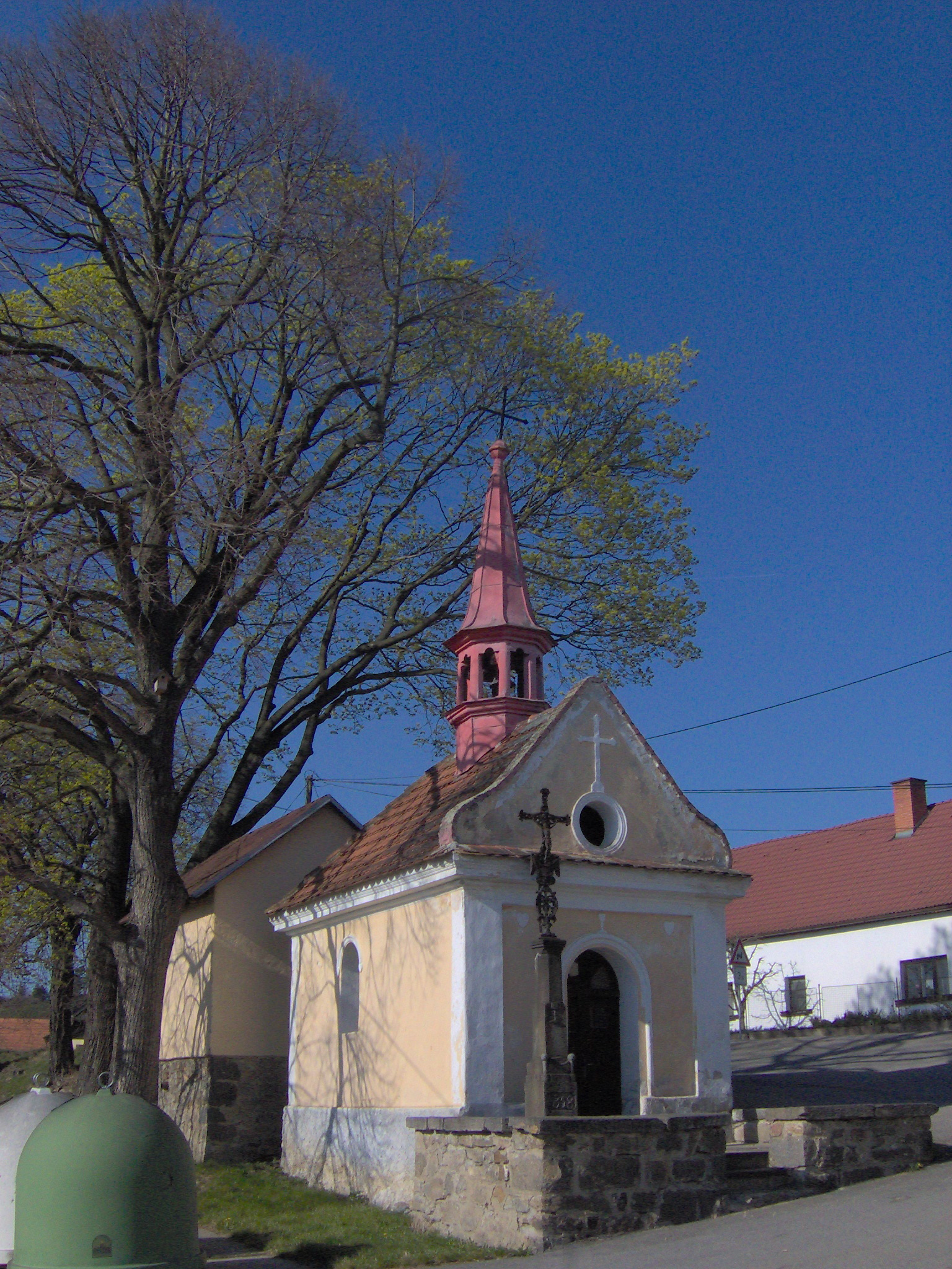 Chapel in Úlehle, Strakonice District, Czech republic